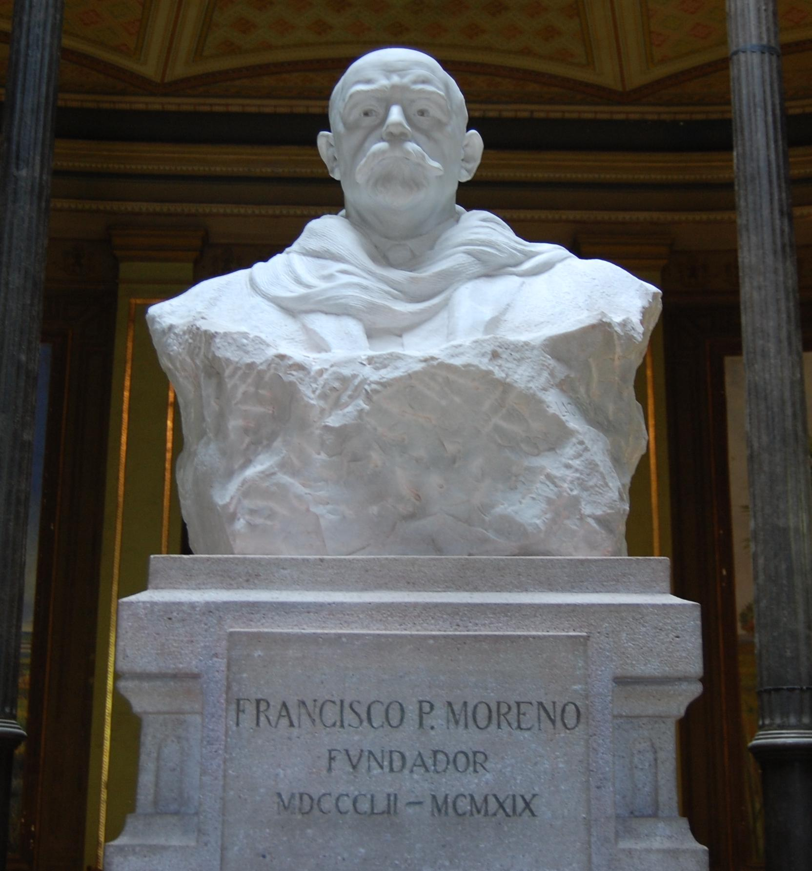 Francisco Pascasio Moreno bust in the La Plata Museum hall, Argentina.